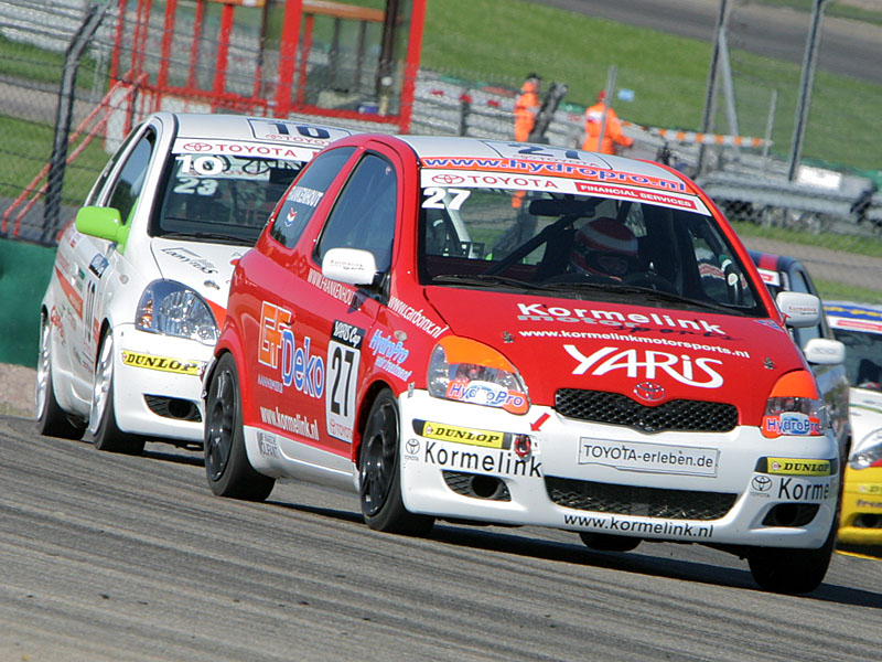 Image shows a scene from Toyota-Yaris-Cup 2005 on Sachsenring Circuit.